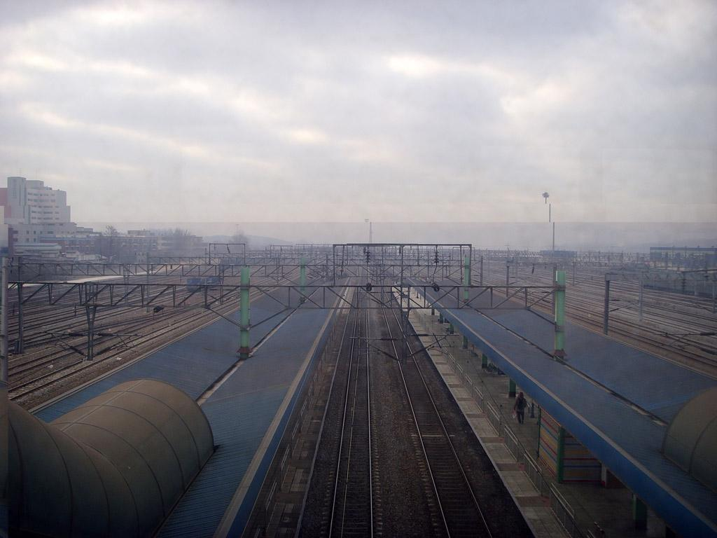 Uiwang Station